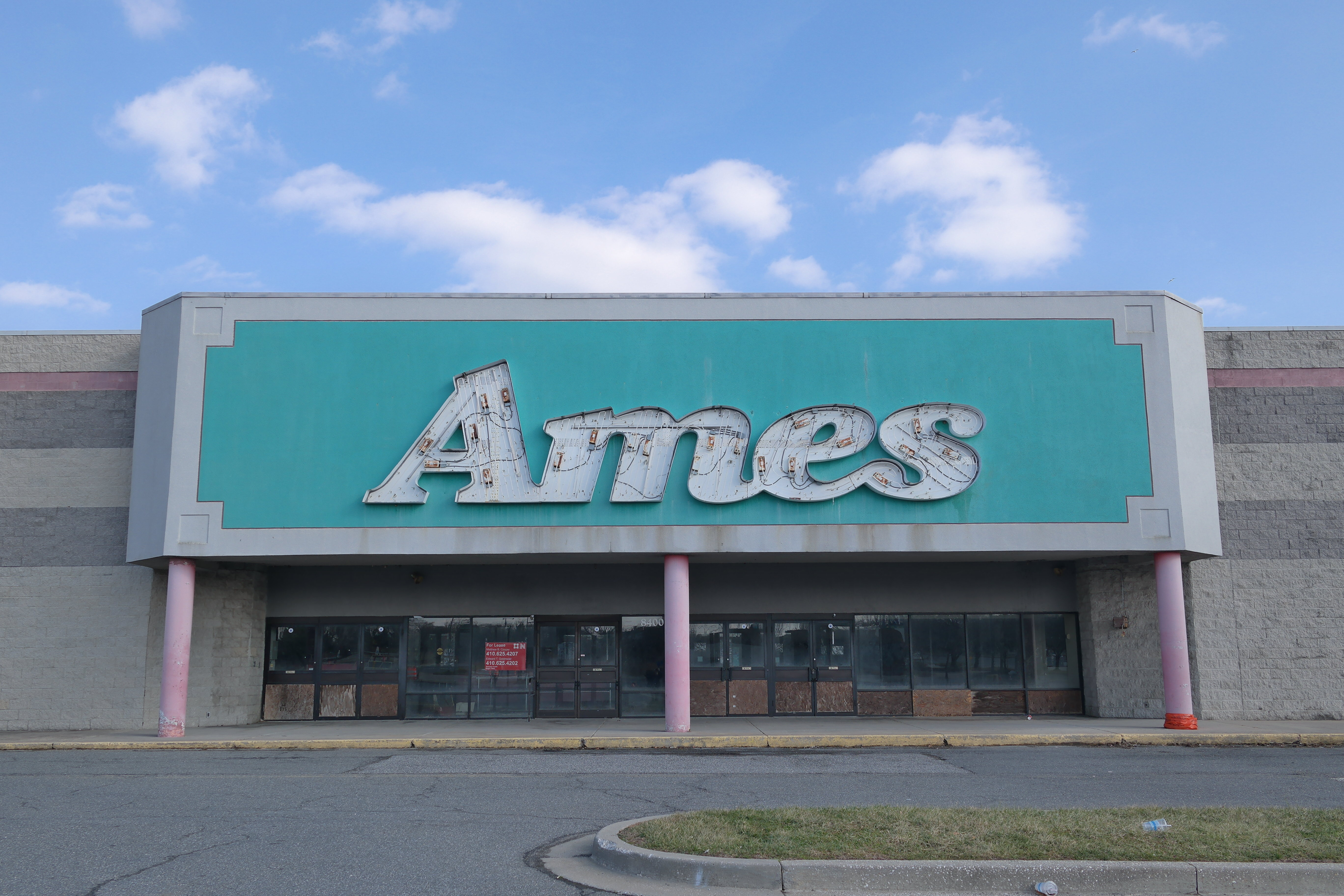 This is a former Ames department store. Before Ames, this location housed a Hills Department Store.